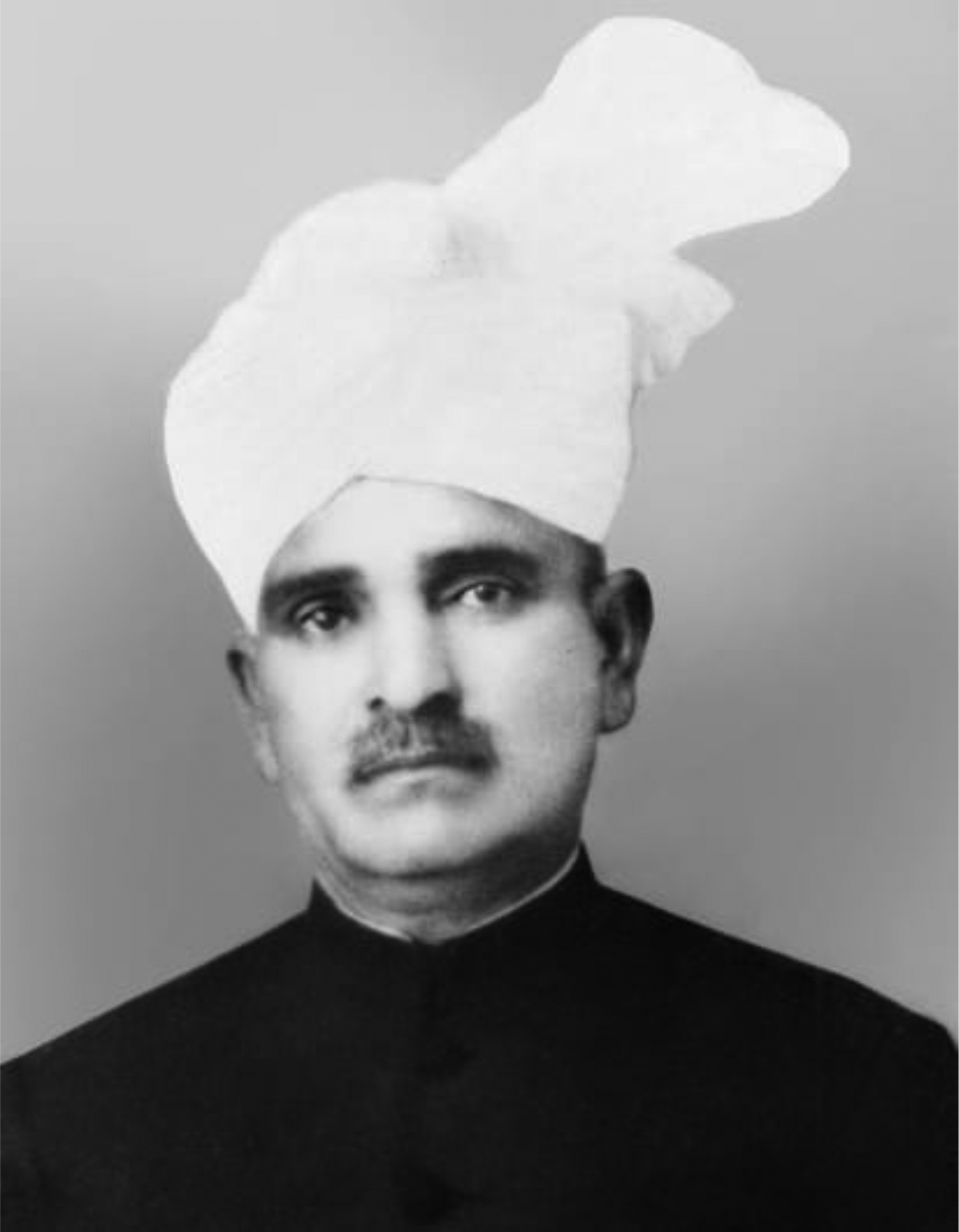 Baba-e-Poonch